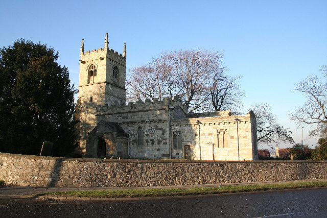 St Peter's parish church, Edlington Lane, Old Edlington, South Yorkshire, seen from the south